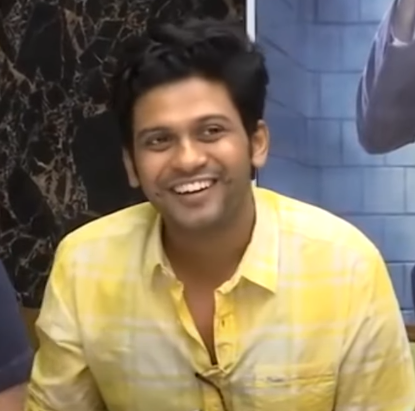 Naveen Polishetty at Agent Sai Srinivasa Athreya Press Meet